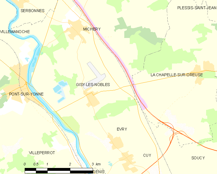 Map of French municipality Gisy-les-Nobles